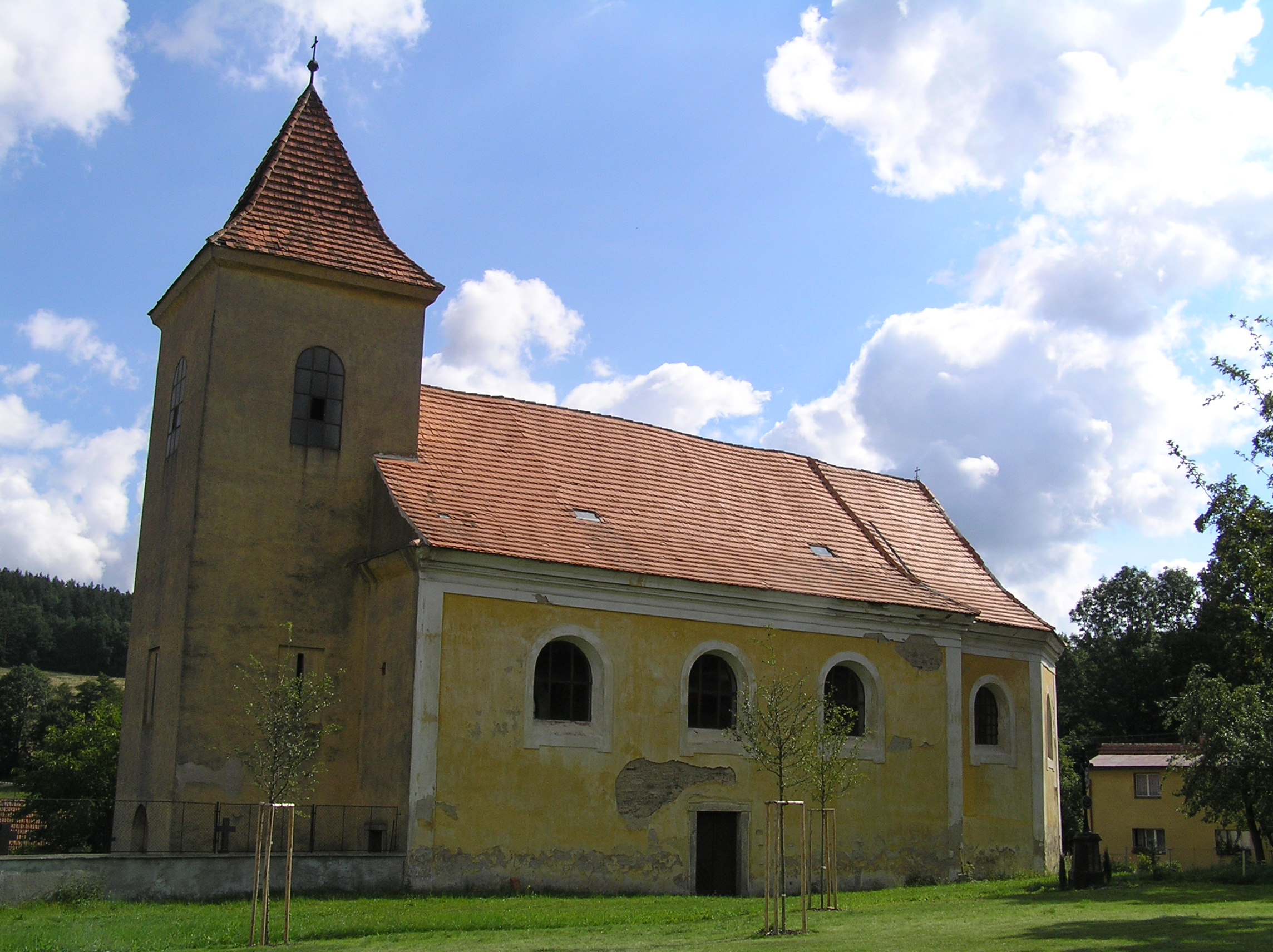 Church of All Saints in Janov, part of Mladá Vožice, South Bohemian Region, Czechia.